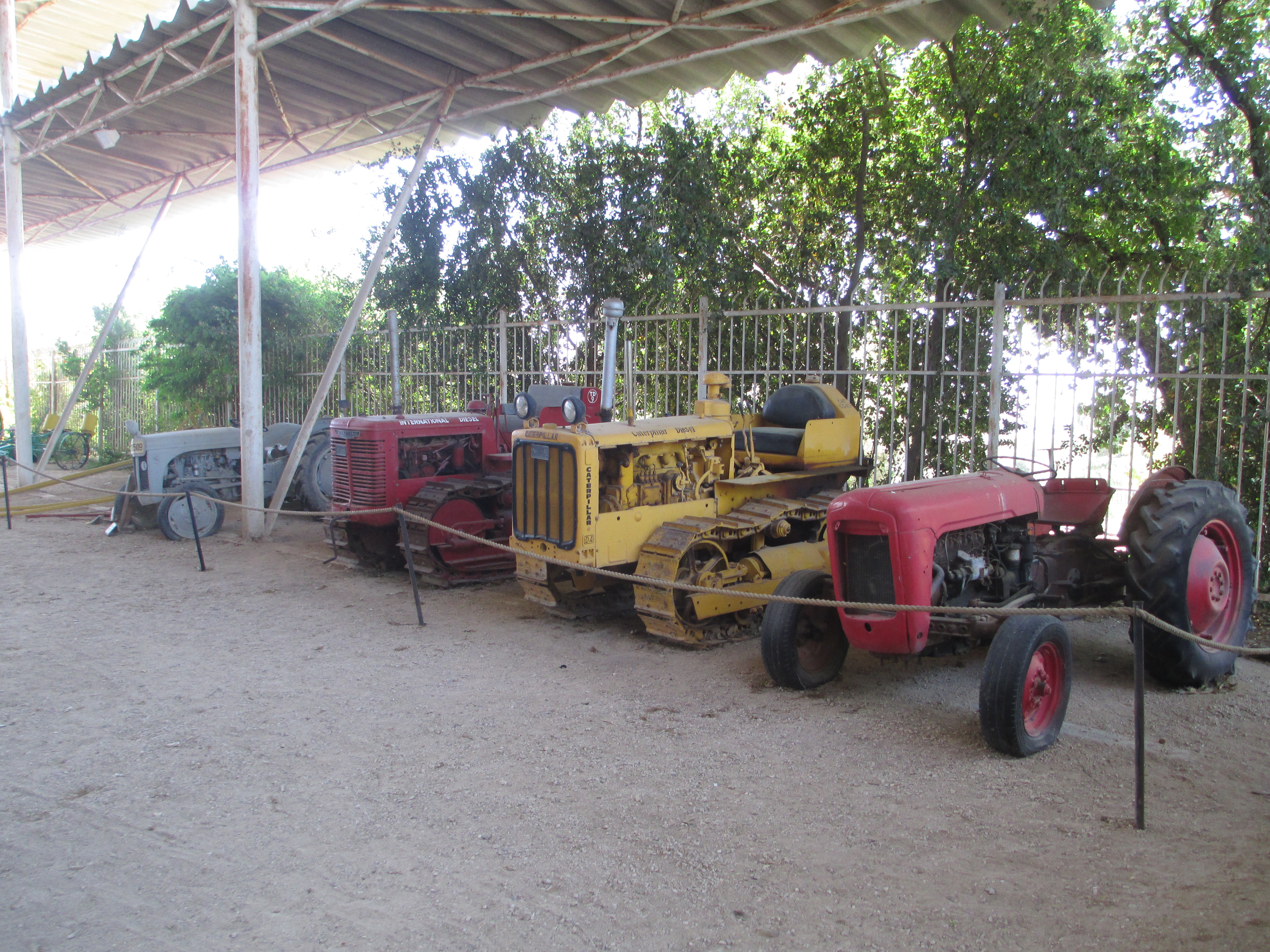 The Jezreel Valley Museum